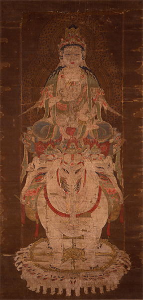 Fugen Enmei (Samantabhadra) (絹本著色普賢延命像, kenpon chakushoku fugen enmeizō). Hanging scroll. Color on silk. Located at Matsunoo-dera (松尾寺), Maizuru, Kyoto, Japan. The scroll has been designated as National Treasure of Japan in the category paintings.